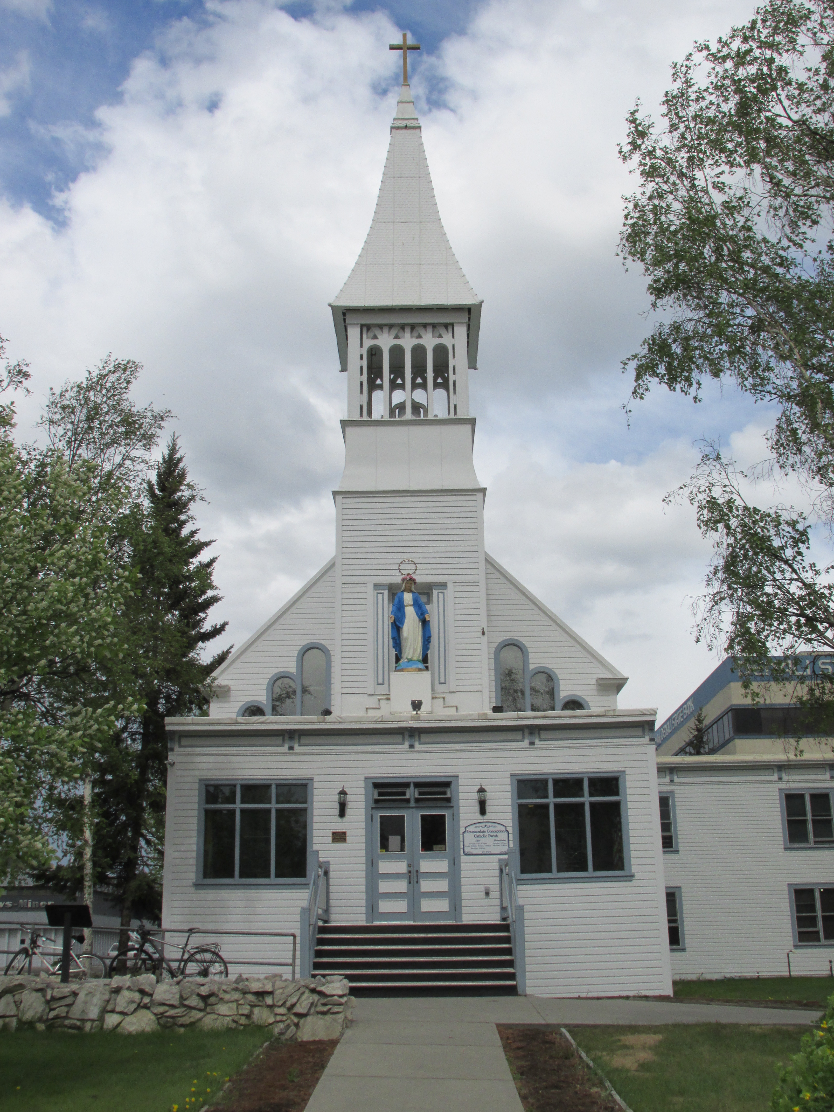 The front entrance and front lawn of Immaculate Conception Church in Fairbanks, Alaska.